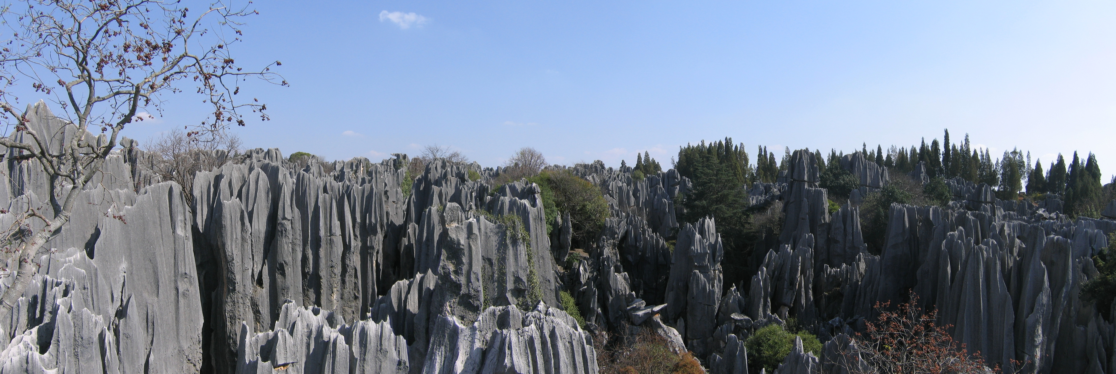 What a weird place... The Stone Forest, Kunming, China - Yunnan Province